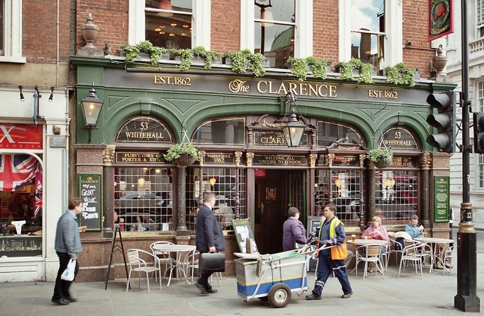 "The Clarence" pub dates from 1896 and at that time was attached to the opposite corner across Great Scotland Yard by an archway. In 1908 the archway was removed in the redevelopment of Great Scotland Yard, the end of the building was refaced with newer and slightly different coloured bricks.